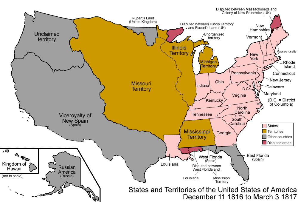 Map of the states and territories of the United States as it was from 1816 to March 1817. On December 11 1816, the southern portion of Indiana Territory was admitted as the state of Indiana; the rest became unorganized. On March 3 1817, Alabama Territory was split from Mississppi Territory.